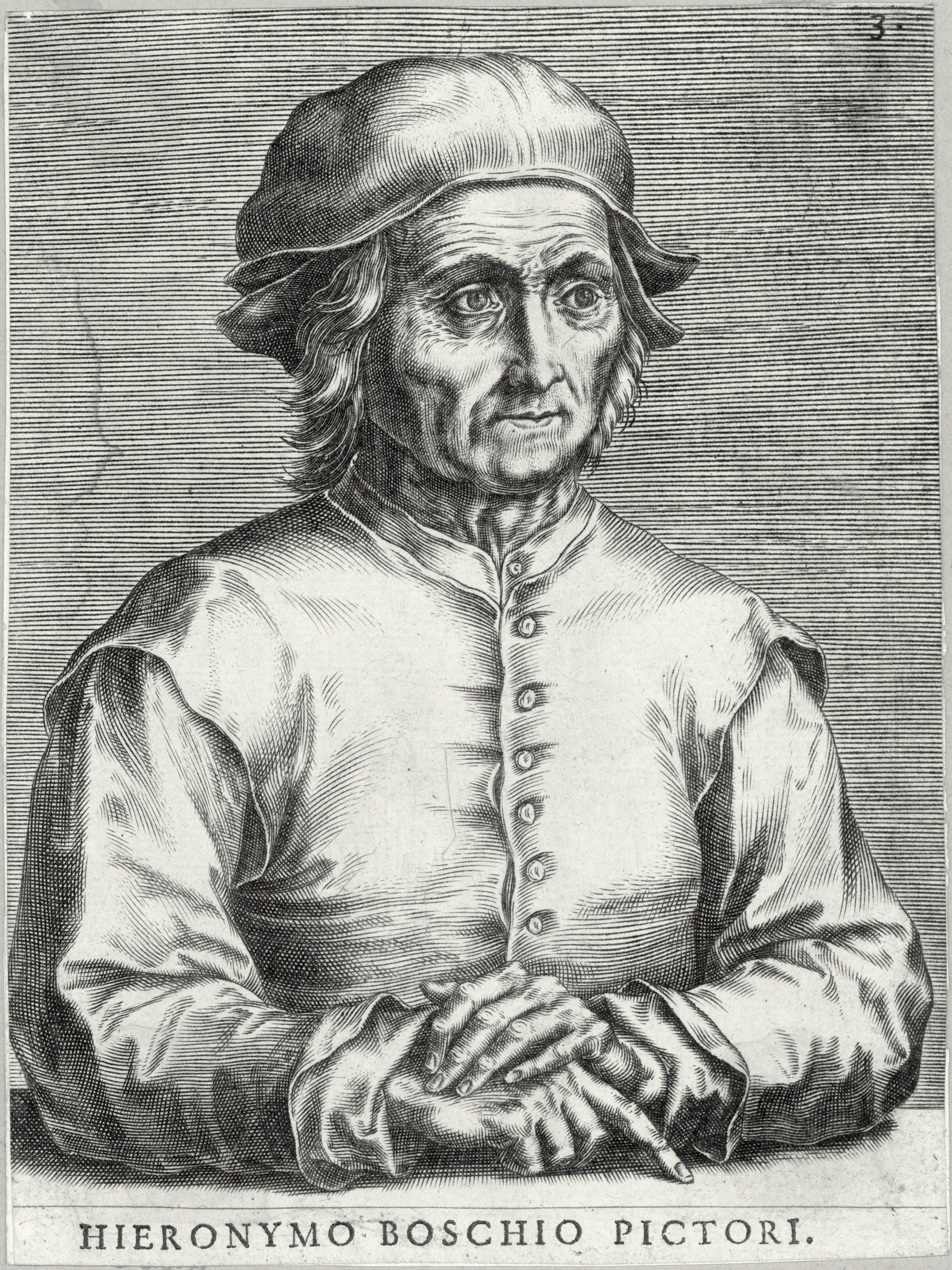 Portrait of Hieronymus Bosch. First state. Used in Hieronymus Cock (1572) Pictorum Effigies, Antwerp: s.n., pl. 3.